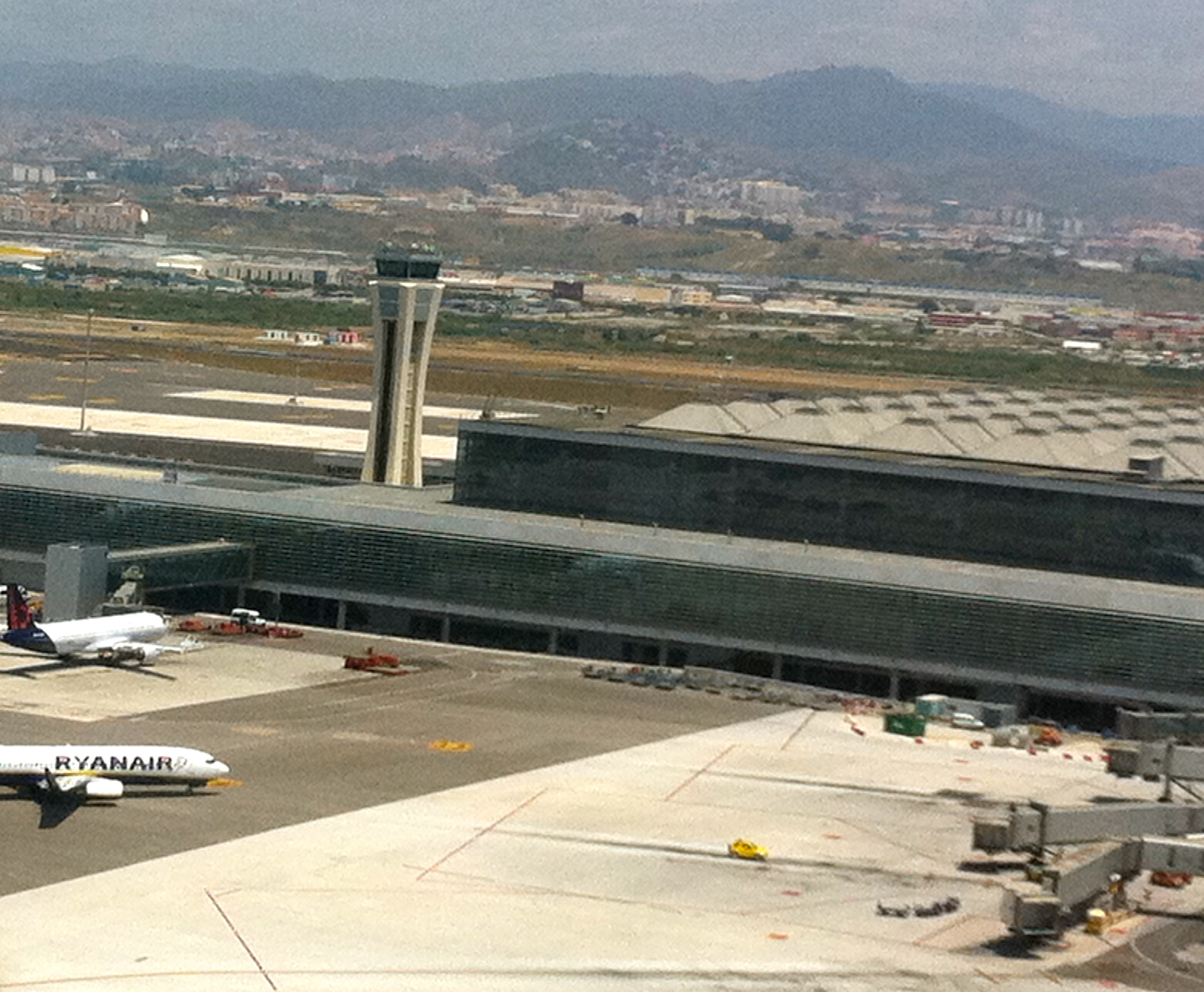 Malaga Airport